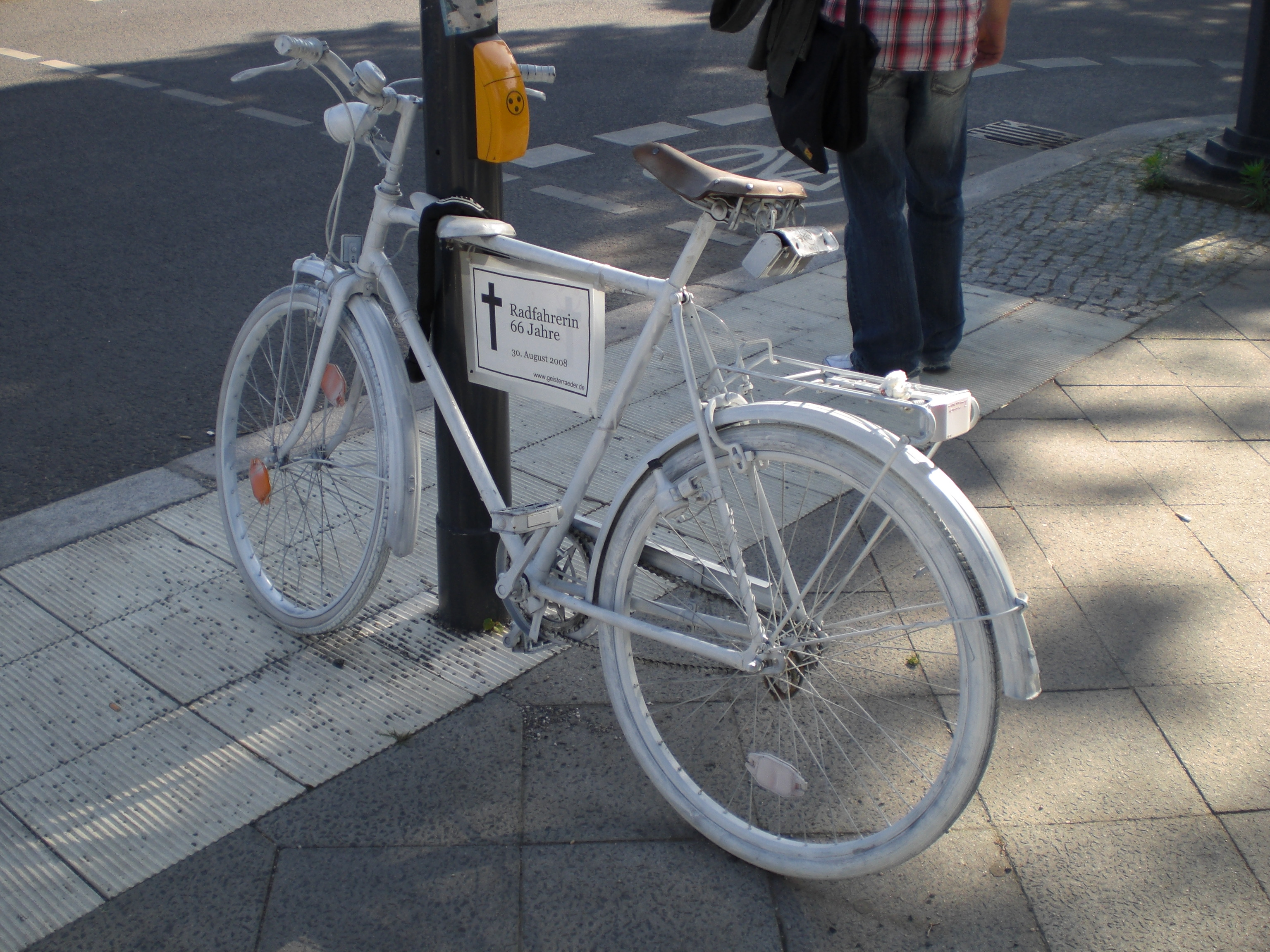 "ghost bike" reminding of a killed cyclist in Berlin, Germany